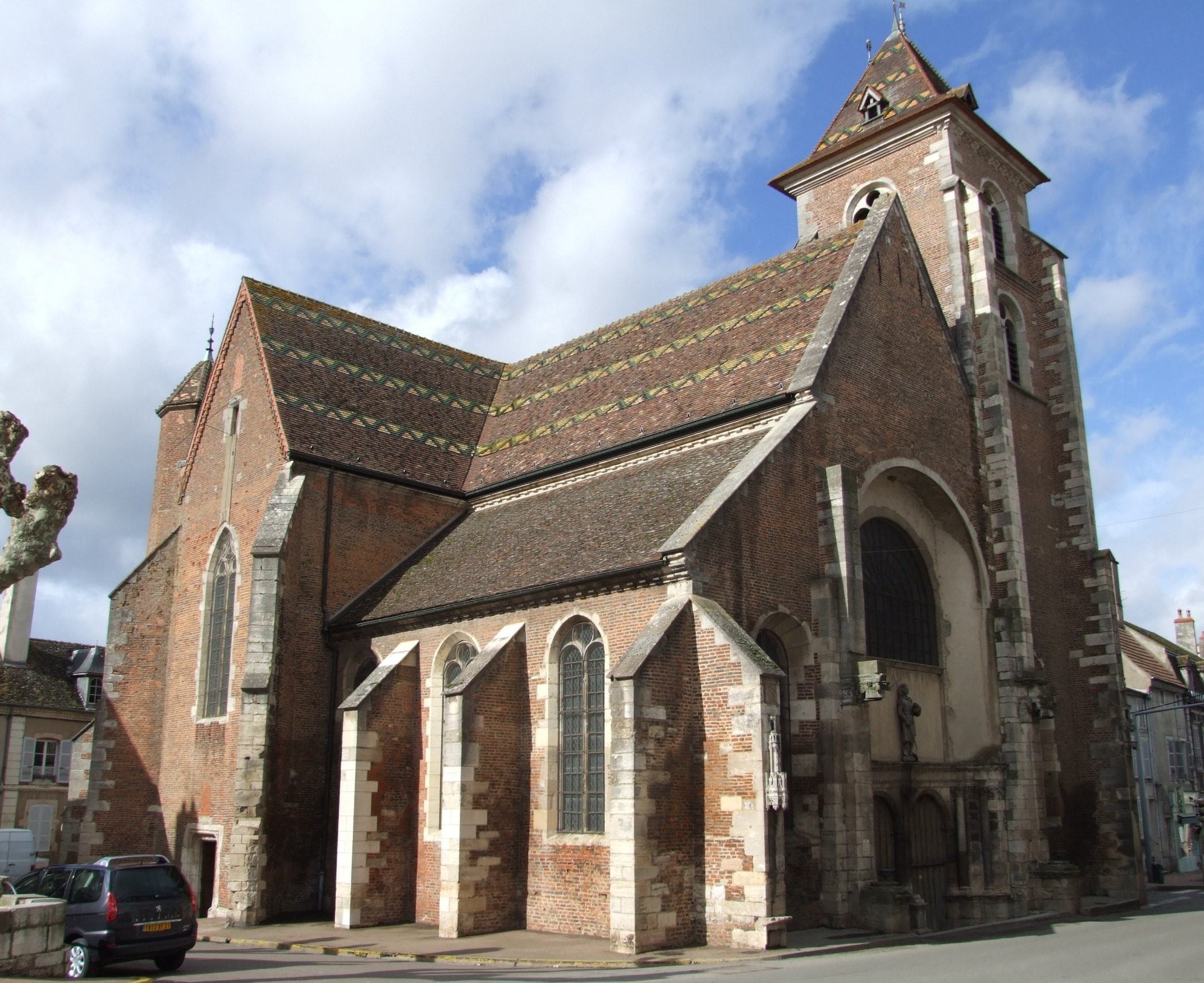 Saint Jean-Baptiste Church, Saint-Jean-de-Losne, Burgundy, FRANCE